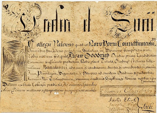 Elizur Goodrich's diploma for his Bachelor of Arts degree, Yale College, 1752. Signed in the lower right-hand corner by Thomas Clap, president, and Corporation Fellows Jared Eliot, Joseph Noyes, William Russell, Thomas Ruggles, and Solomon Williams. Courtesy of the Yale University Manuscripts & Archives Digital Images Database, Yale University, New Haven, Connecticut. Retouched by MarmadukePercy.